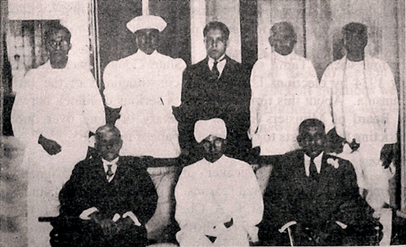 Ministers of the Second State Council of Ceylon with the Speaker in 1936 (Rare Photograph) Seated:Sir Baron Jayatilaka,Sir Waithilingam Duraiswamy (Speaker) and D.S.Senanayaka.Standing:S.W.R.D.Bandaranayaka,Sir John Kotalawala,Sir Claude Corea,W.A de Silva and C.W.W.Kannangara.